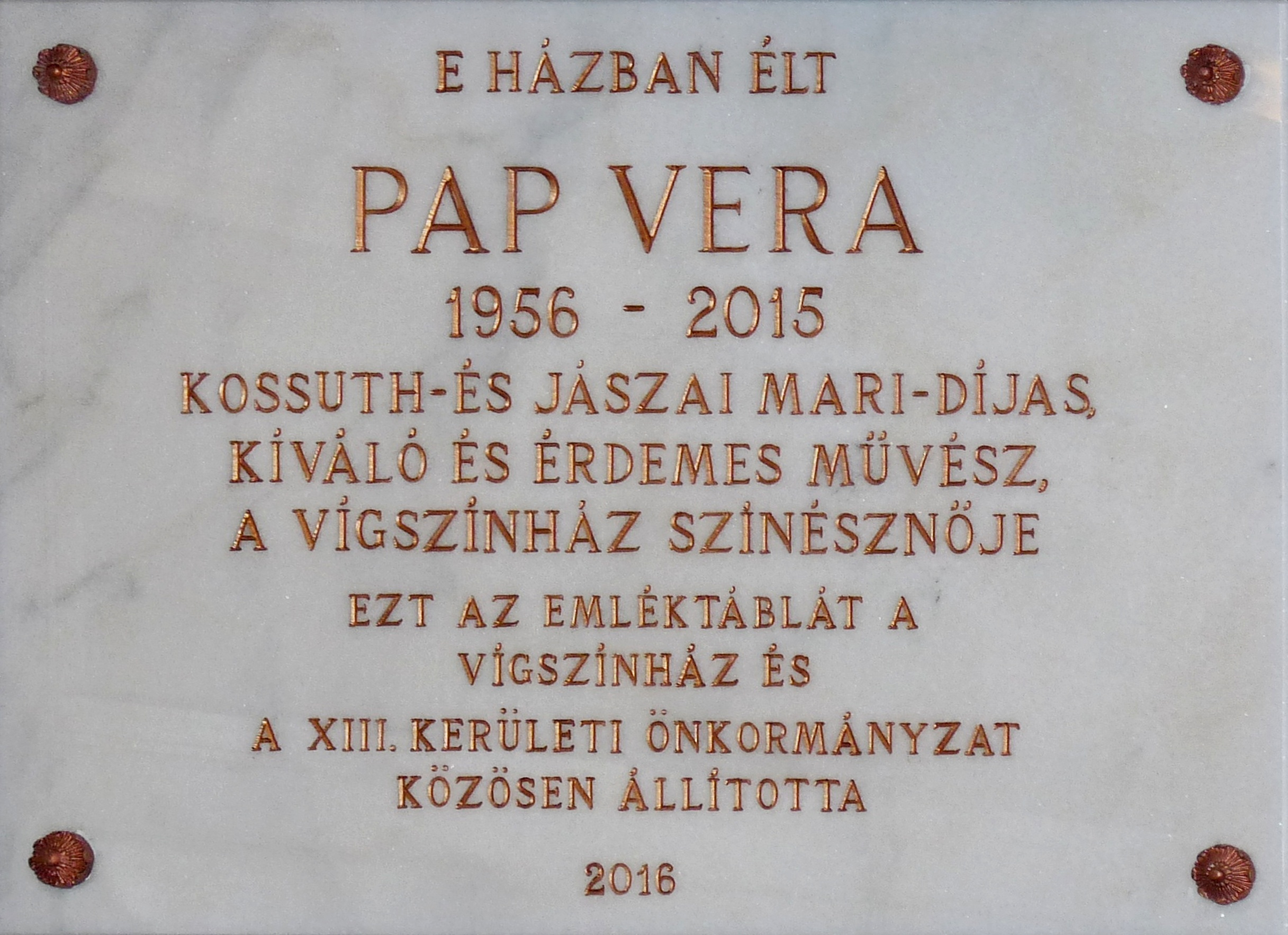 Commemorative plaque to Mrs. Vera Pap (1956–2015) Kossuth Prize and Jászai Mari Prize winner Hungarian actress, Lifetime Member of the Compagny of Immortals. The plate was affixed to the wall of the artist’s former home January 26, 2016 on the occasion of her 60th anniversary. (Budapest, District XIII, Kárpát Street Nr 24)